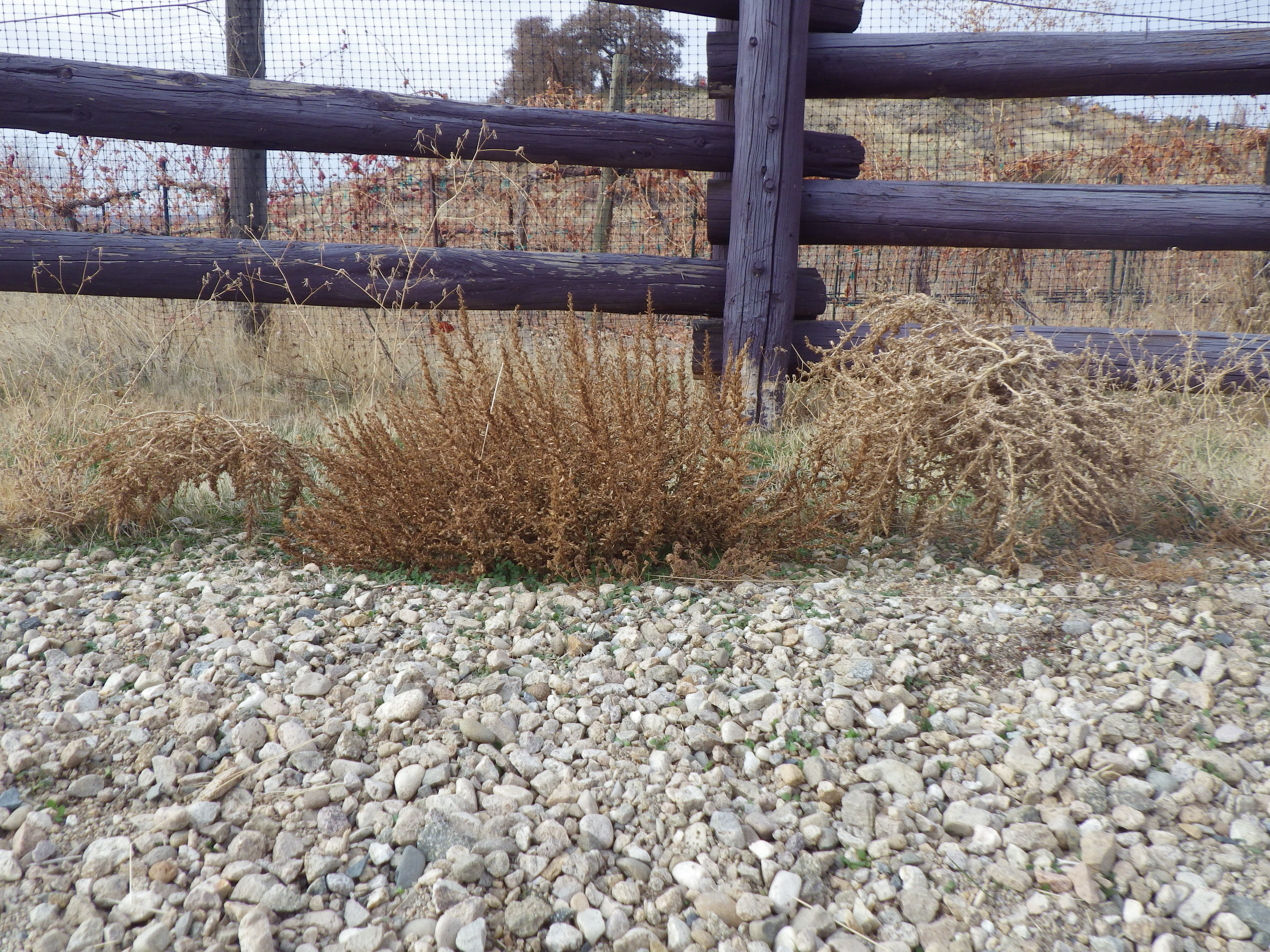 This annual amaranth is often reported as forming a tumbleweed by late fall.